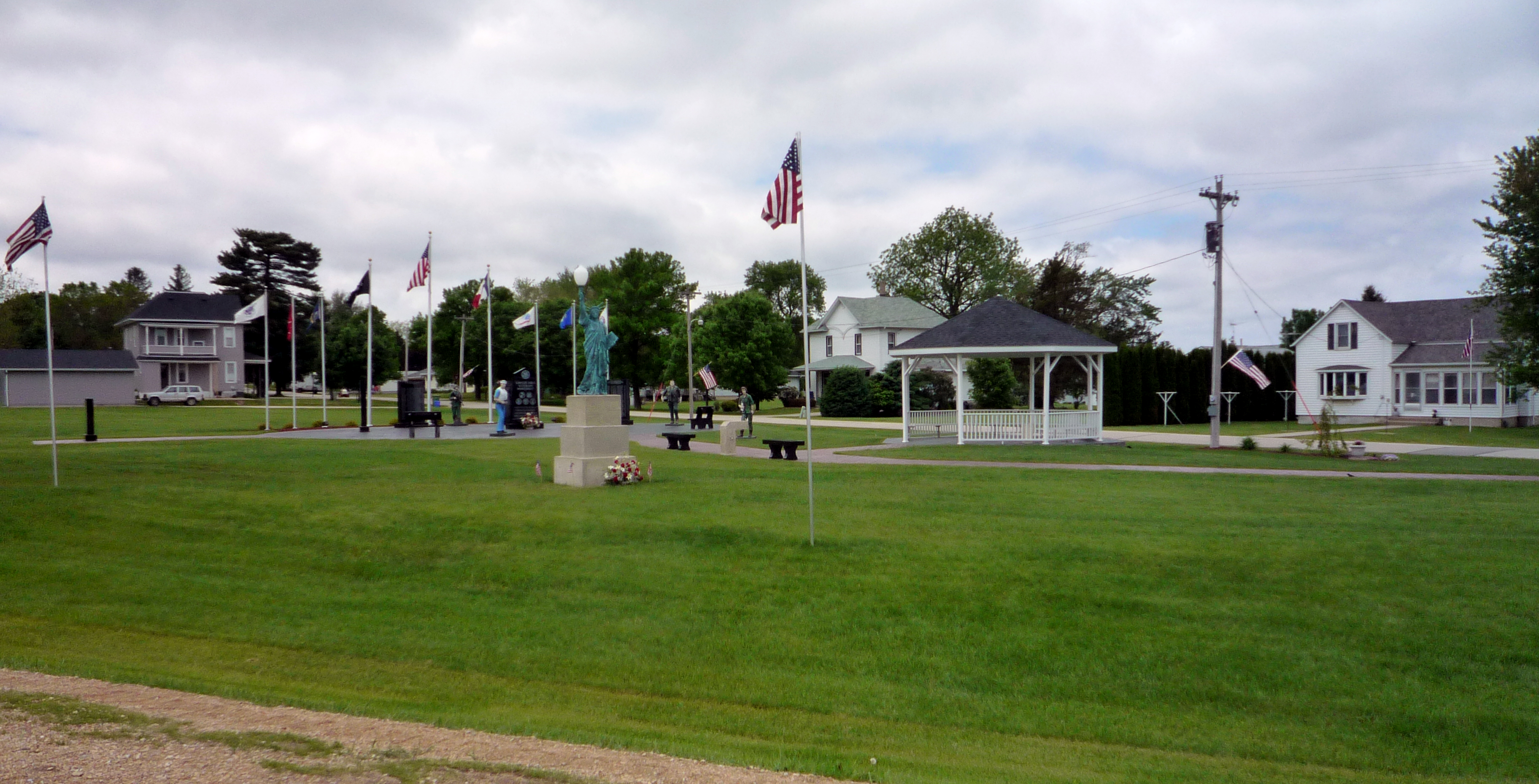 A park dedicated to veterans, Lawler, Iowa, USA.